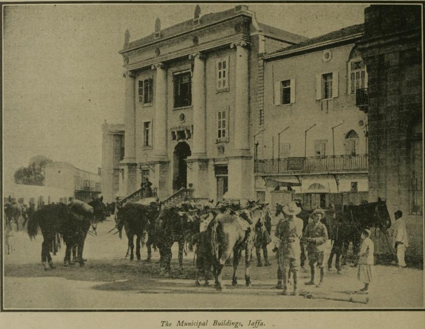 WWI Photograph